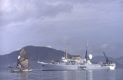 NOAAS Oceanographer visits the People's Republic of China